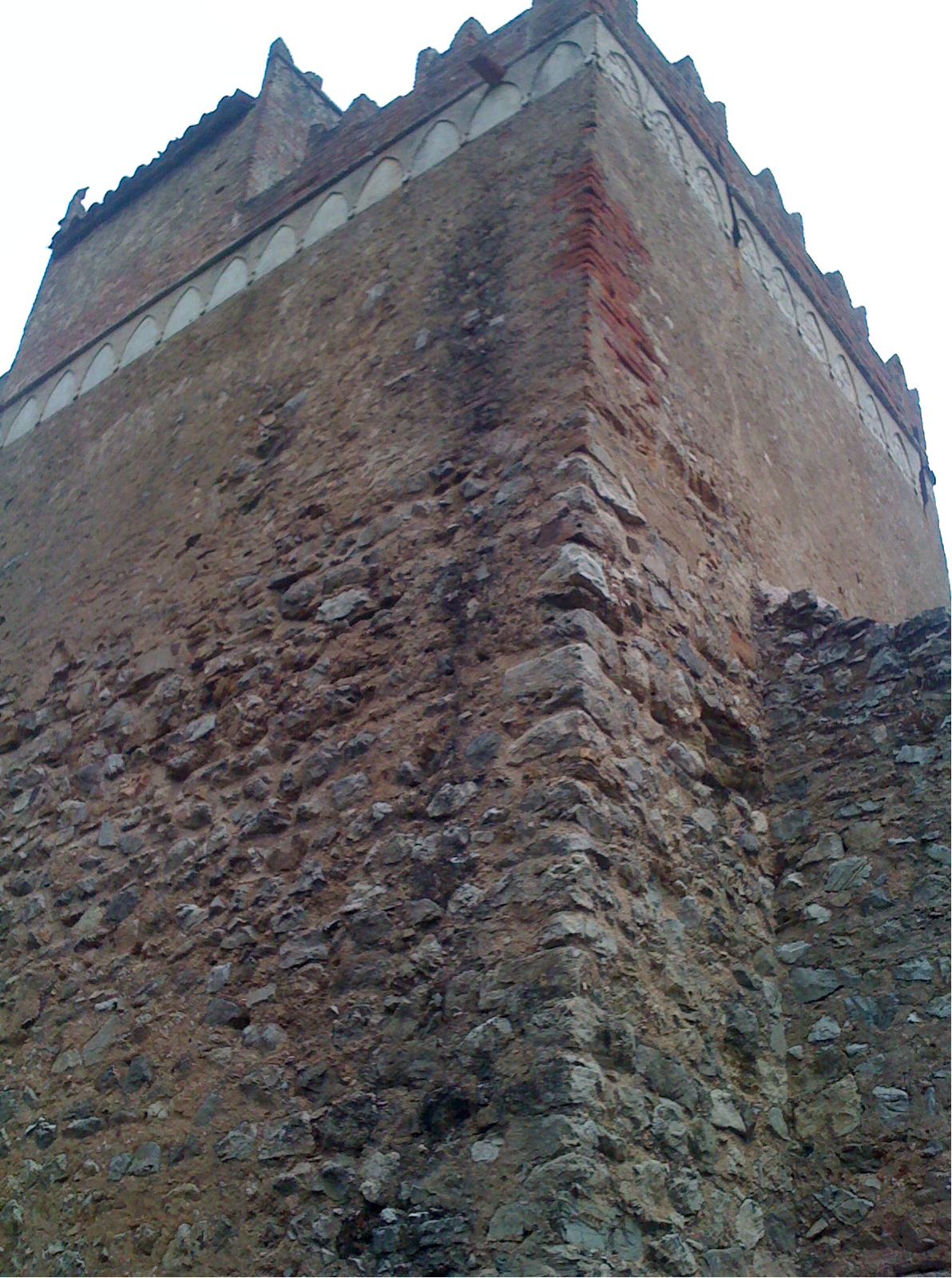 Pisan tower - Iglesias , Italy-Sardinia